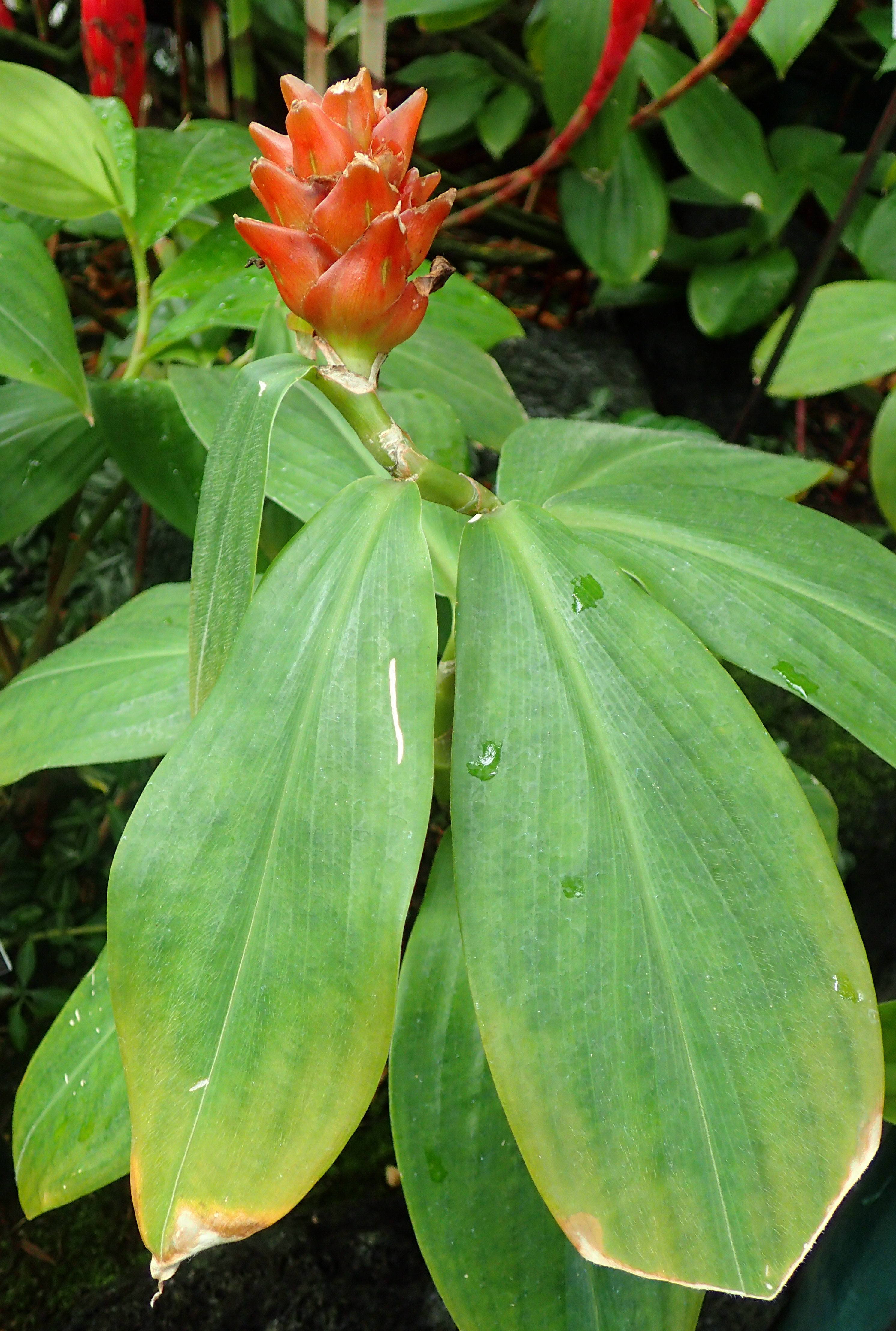 Costus curvibracteatus in the New York Botanical Garden